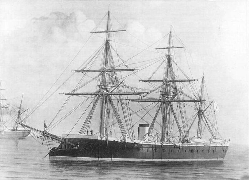 The Imperial Russian Navy ironclad frigate Sevastopol.